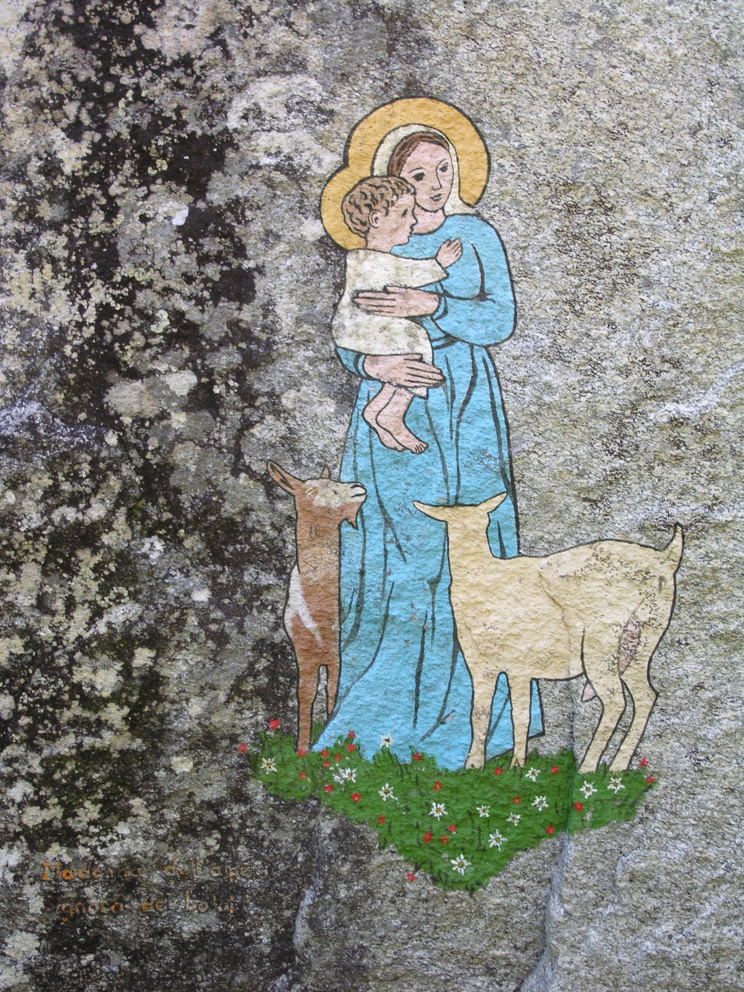 The painting of the St. Mary on the stone in Swiss Italian mountains